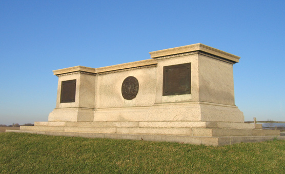 Massachusetts State Monument on the Cornfield — at the Antietam National Battlefield, in northwestern Maryland.